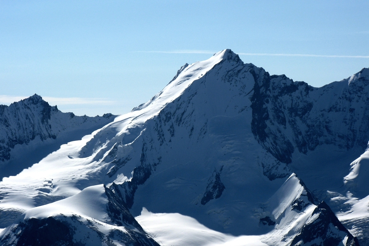 Dom from west, Swiss Alps